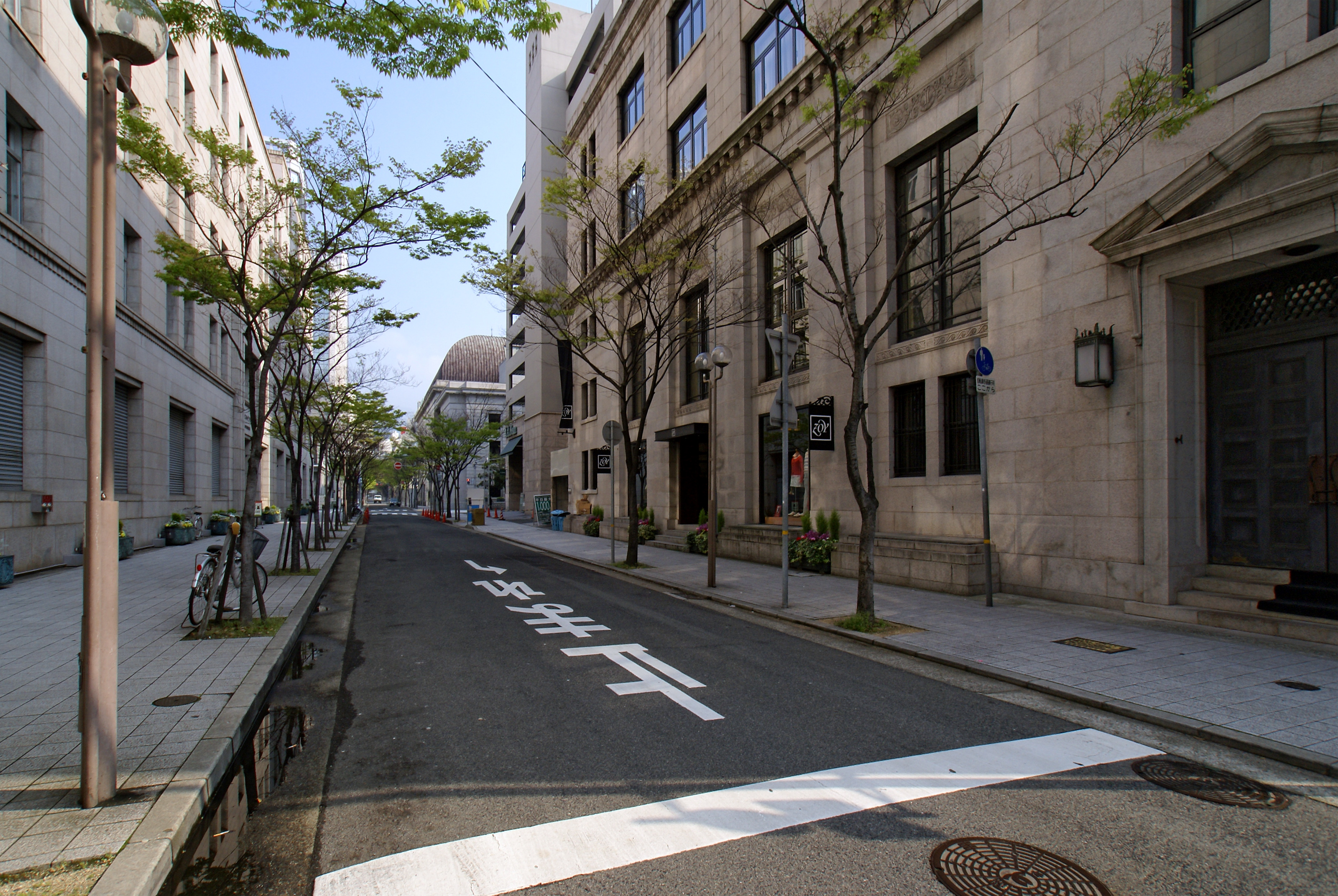 Naniwamachi-street of Kyukyoryuchi in Kobe, Hyogo prefecture, Japan